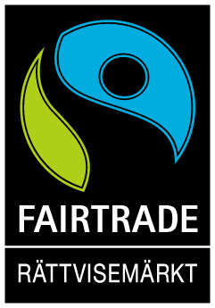 Rättvisemärktslogo